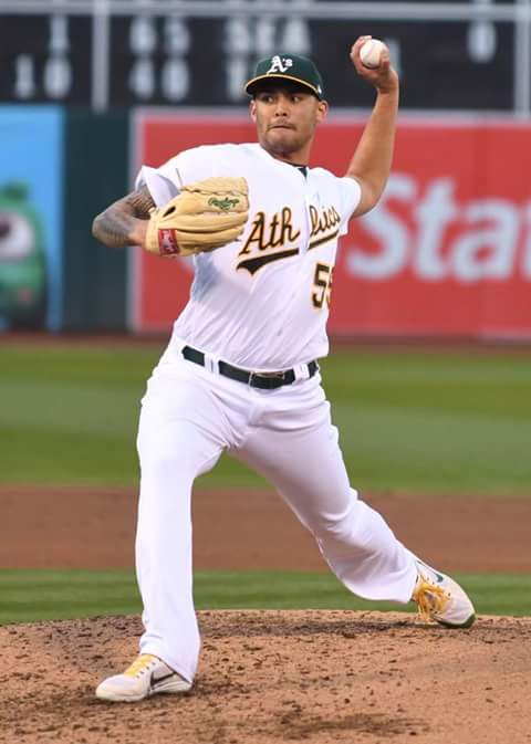 Sean Manaea Pitching during his no hitter in 2018